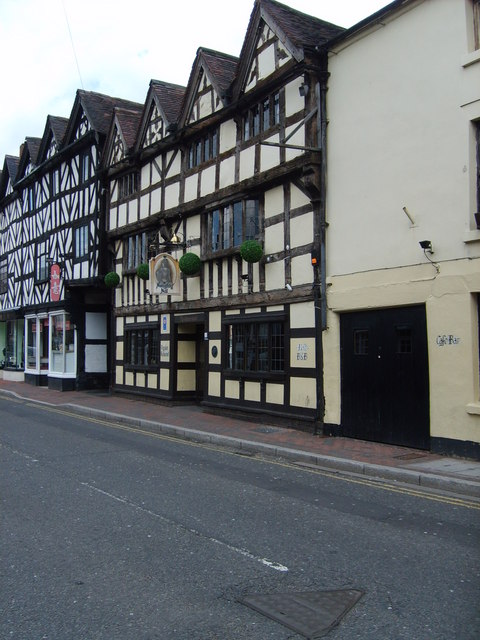 Naughty Nell A Inn on the A464 in Shifnal Town.